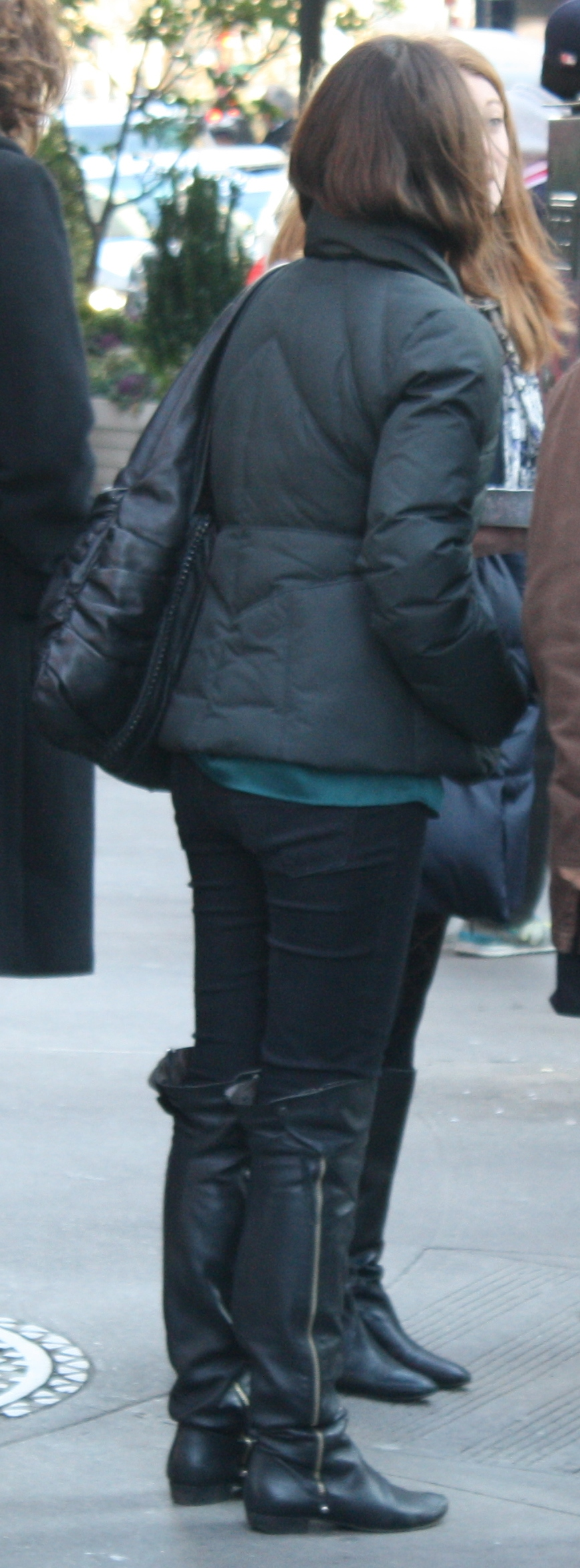 Woman in winter jacket, leggings, and black leather boots, 2011